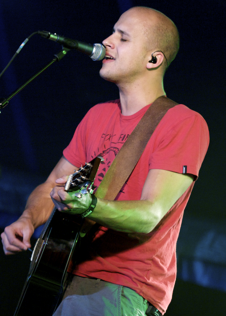 Belgian singer-songwriter, Milow.